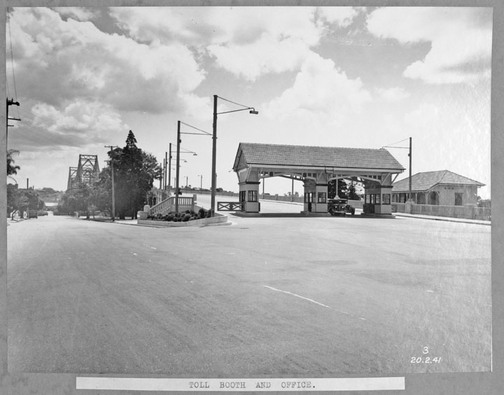 Toll booth and office, Brisbane. (Story Bridge construction)